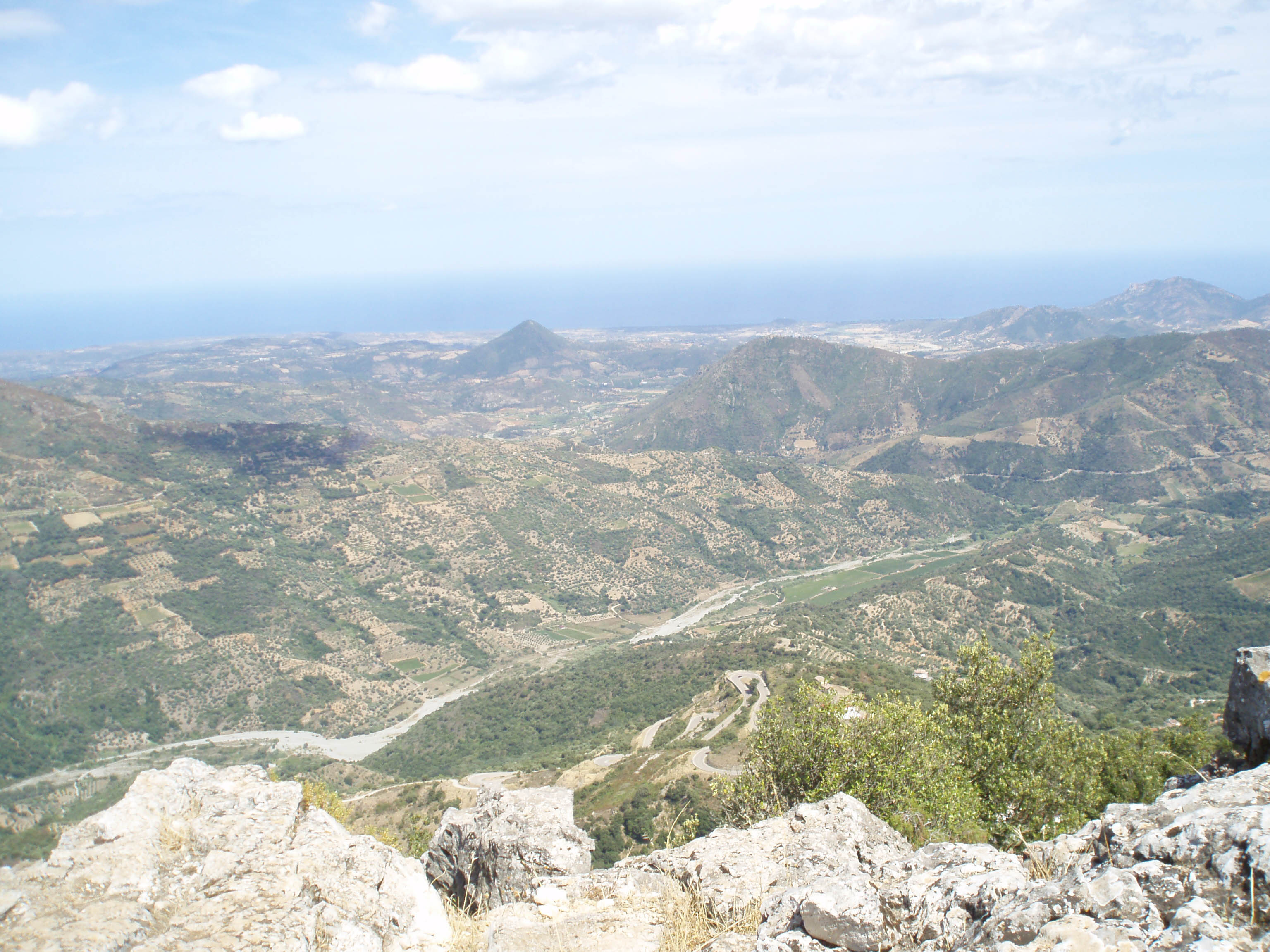 Panorama of Ogliastra from Monte Tisiddu